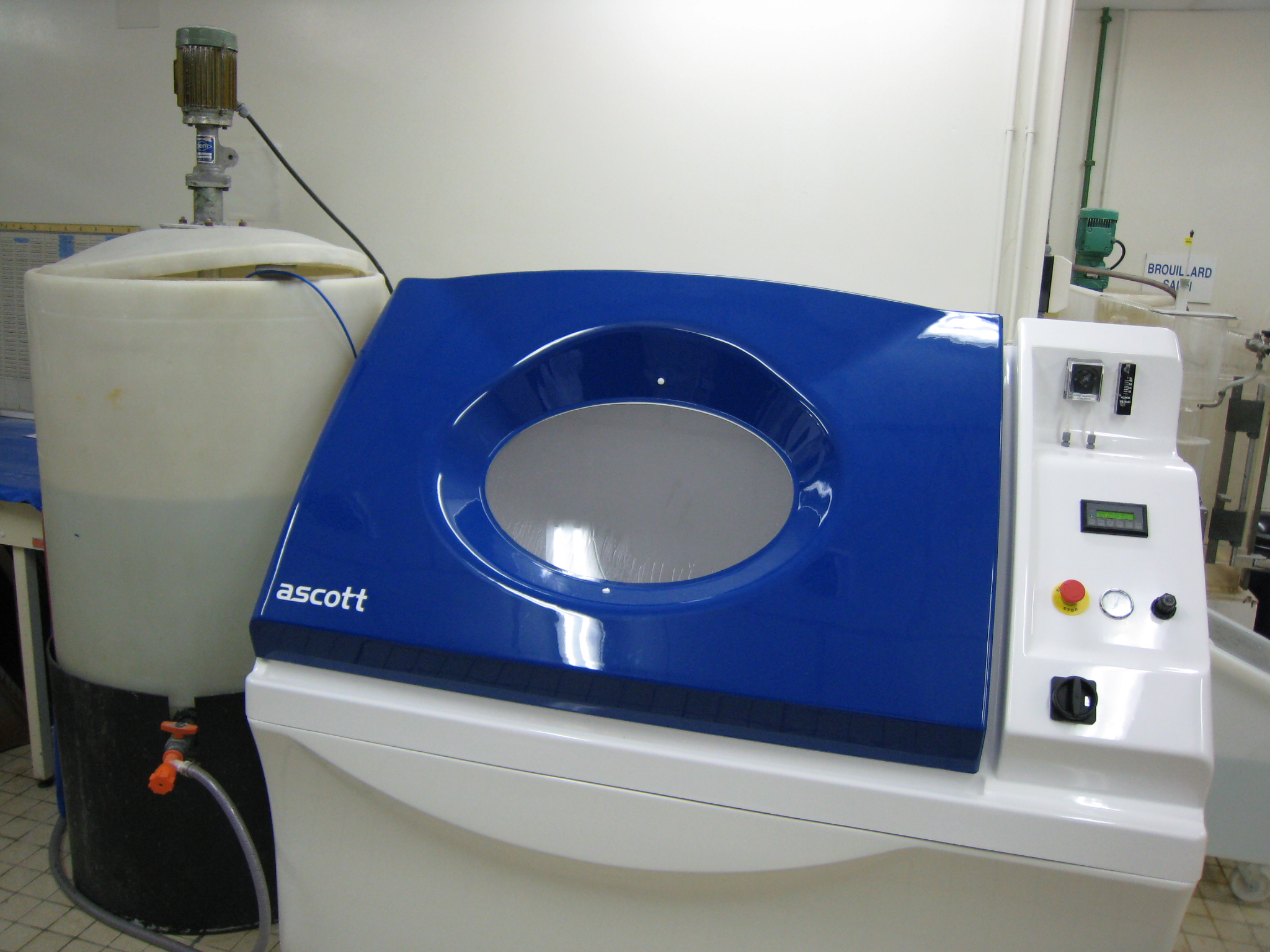 Salt spray chamber for accelerated ageing test on materials.